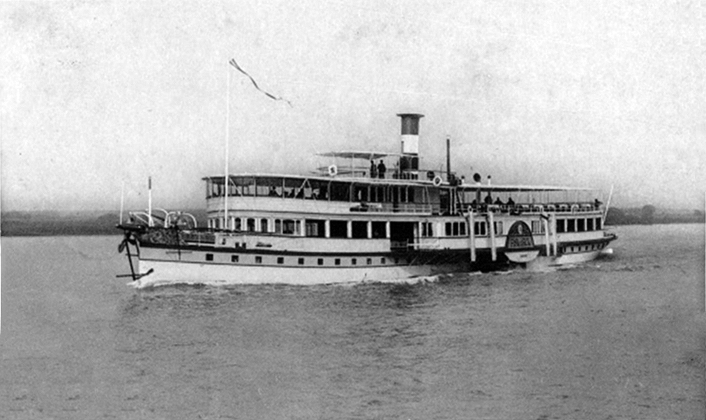 Paddle Steamer Bismarck